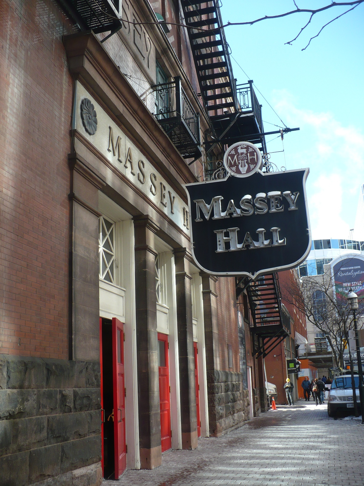 Massey Hall, Toronto with a touch of snow on the sign